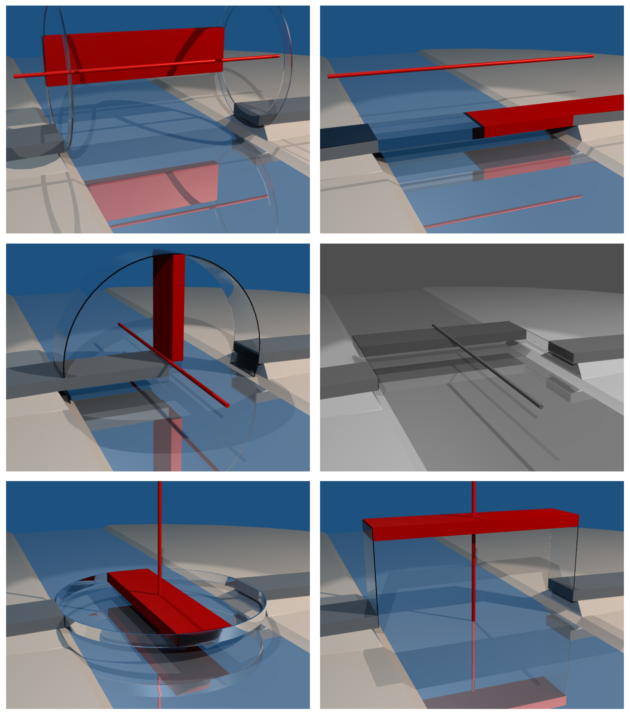 Opening bridges in 5 directions